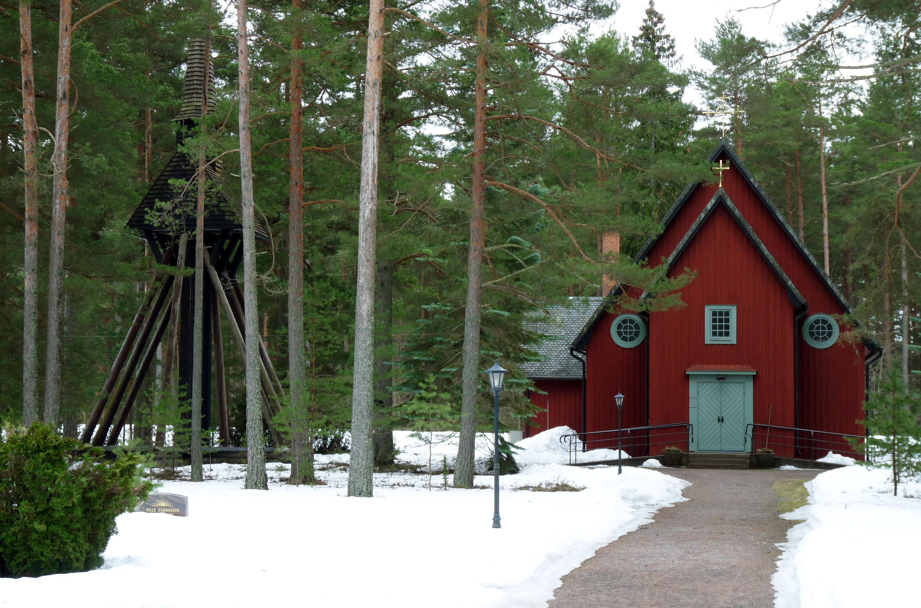 Bockara Church, Småland, Sweden